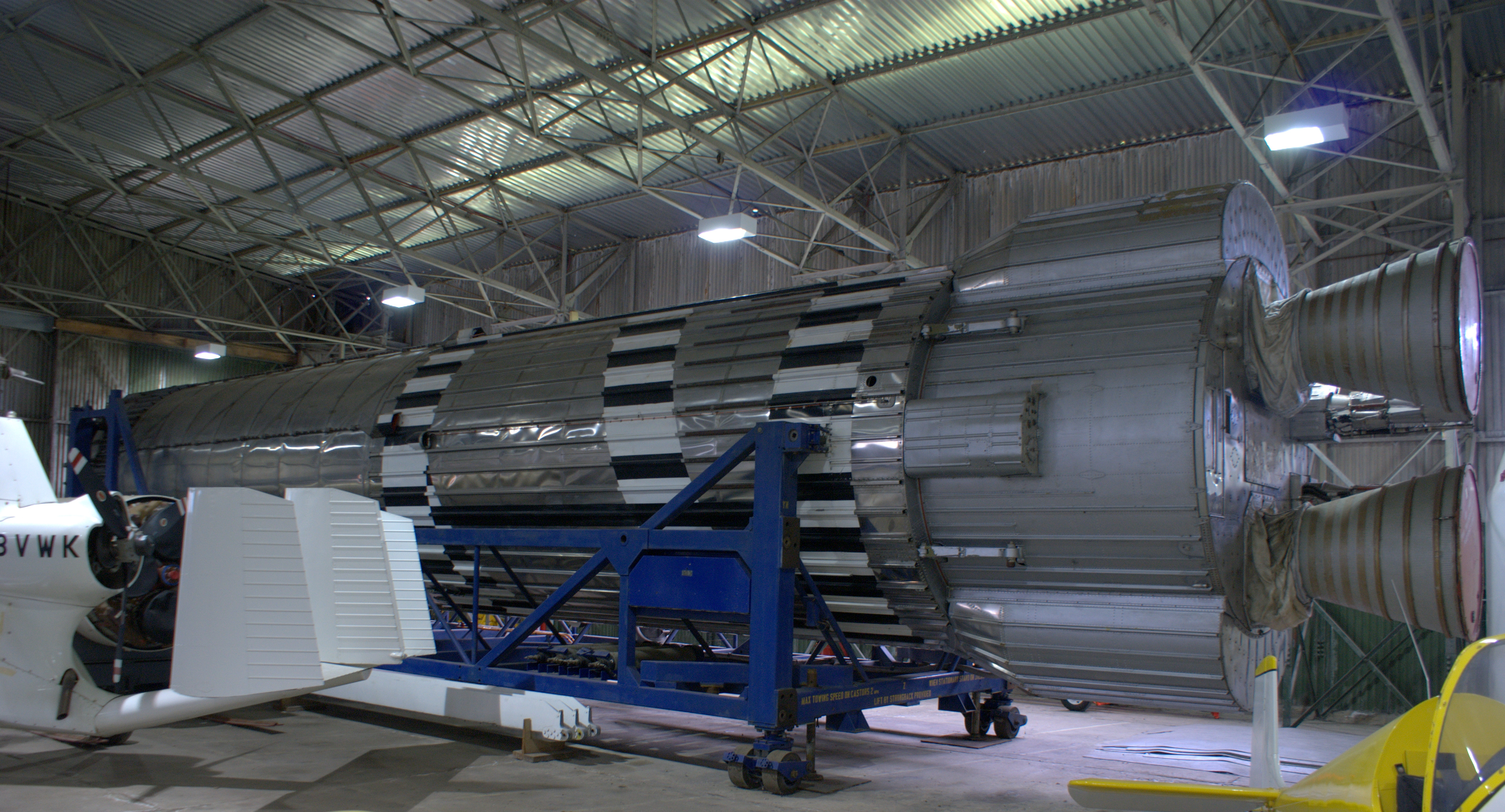 Rear side view of Blue Streak (F13) stage at Museum of Flight, Scotland.